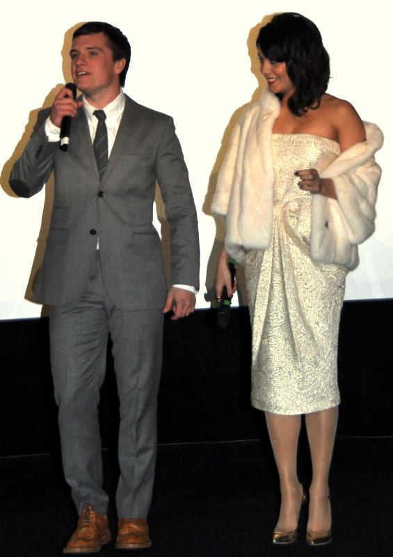 Vanessa Hudgens and Josh Hutcherson in Paris at the French premiere of Journey 2 : The Mysterious island.